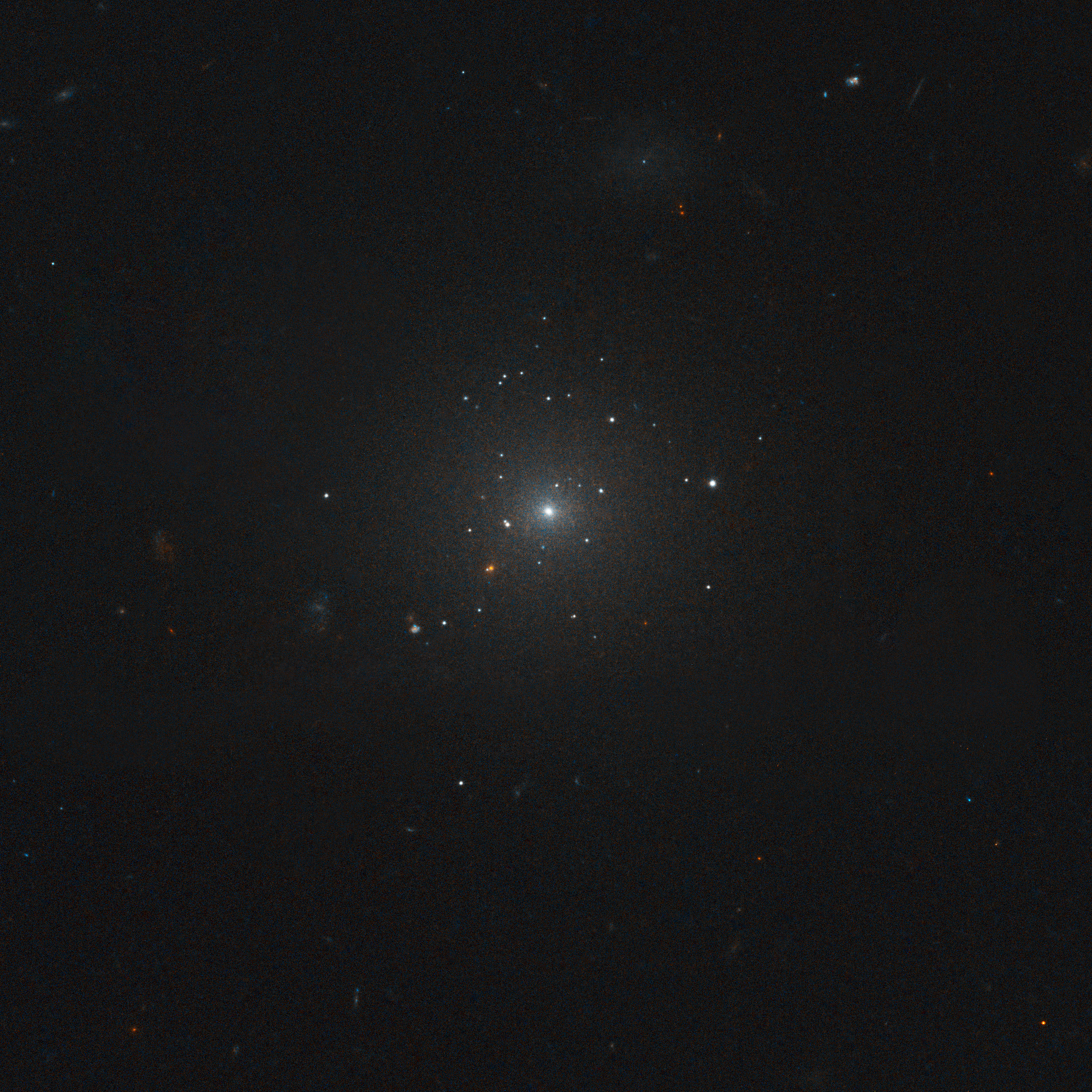 Galaxy IC 3506